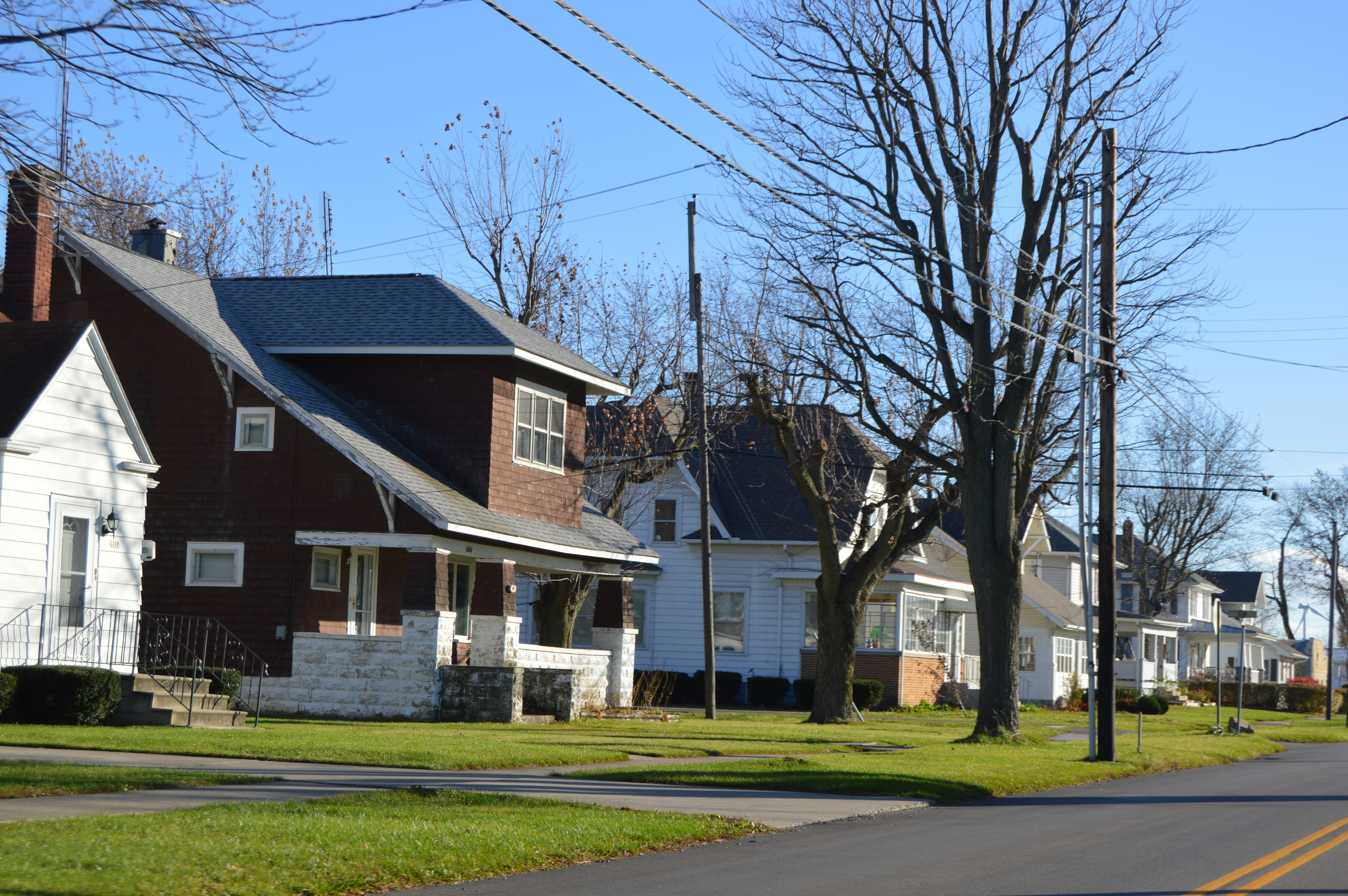 Houses on the eastern side of Main Street (State Route 49) north of Elm Street in Payne, Ohio, United States.